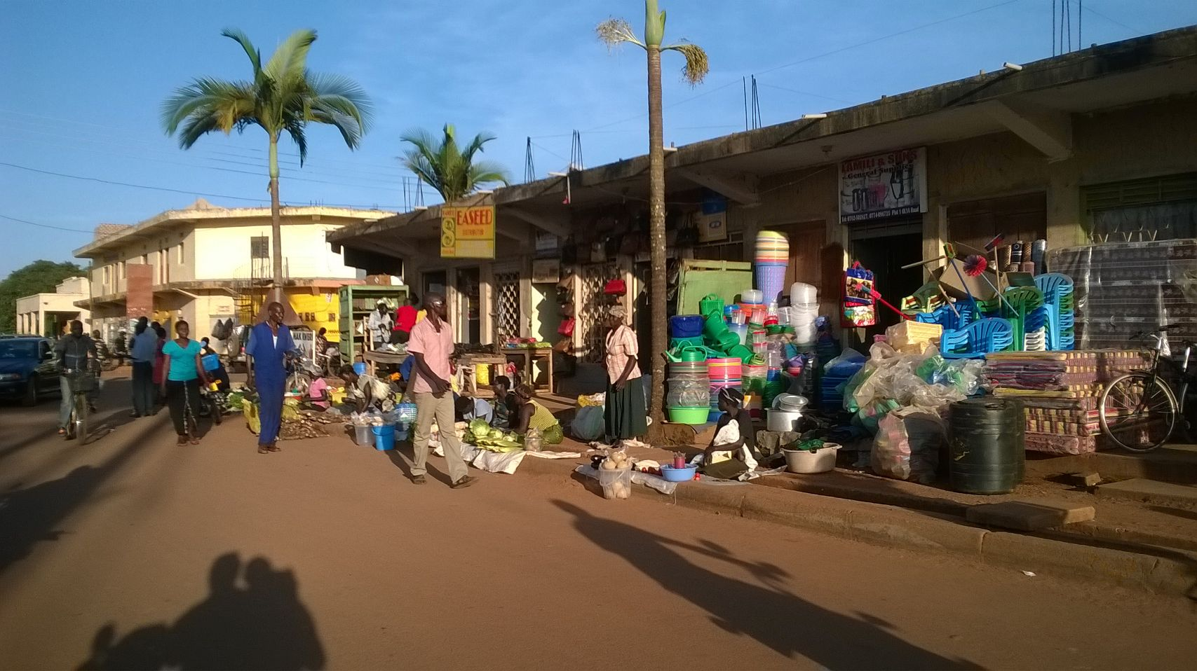 Gulu market